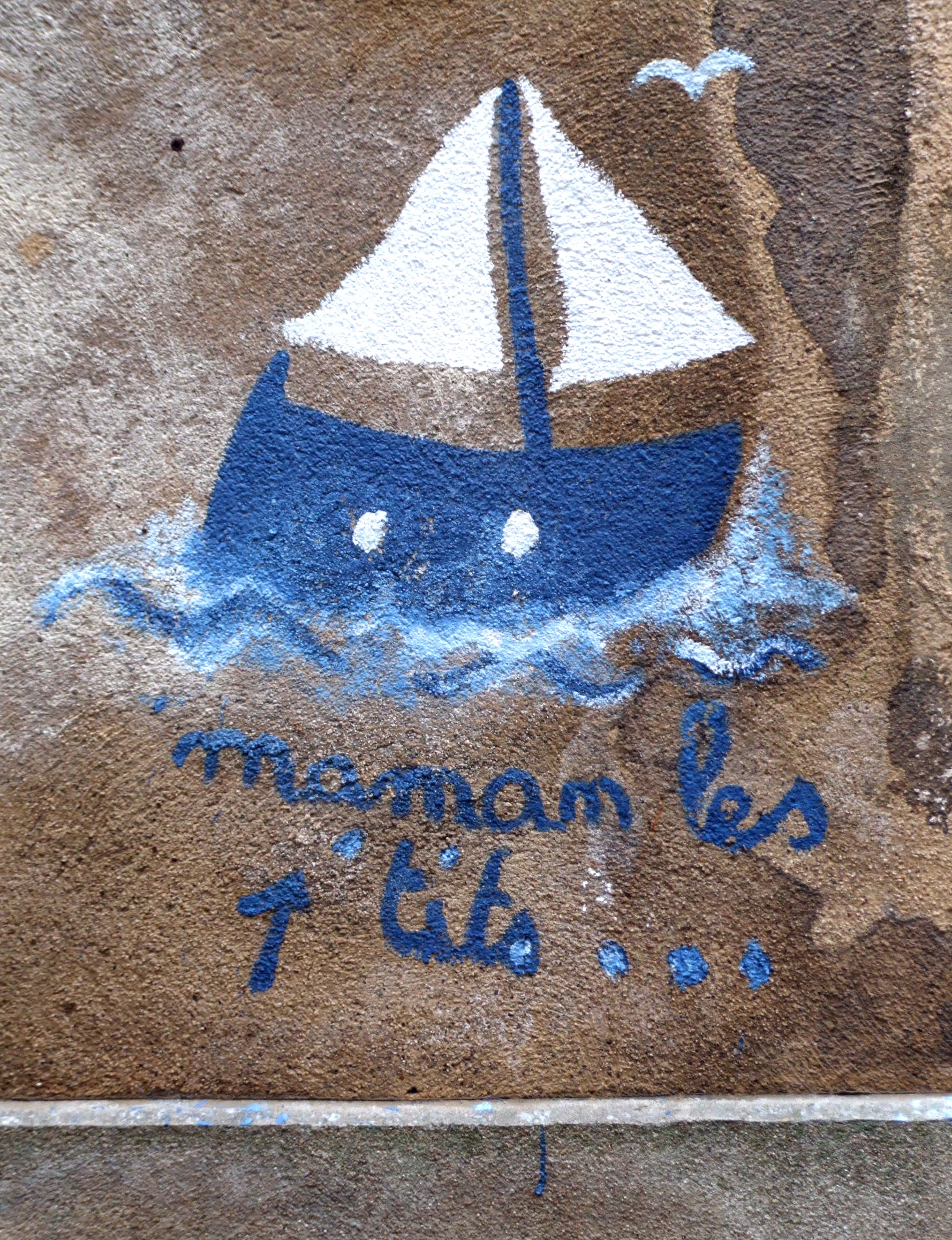 Graffiti, Semur-en-Auxois, Burgundy, FRANCE